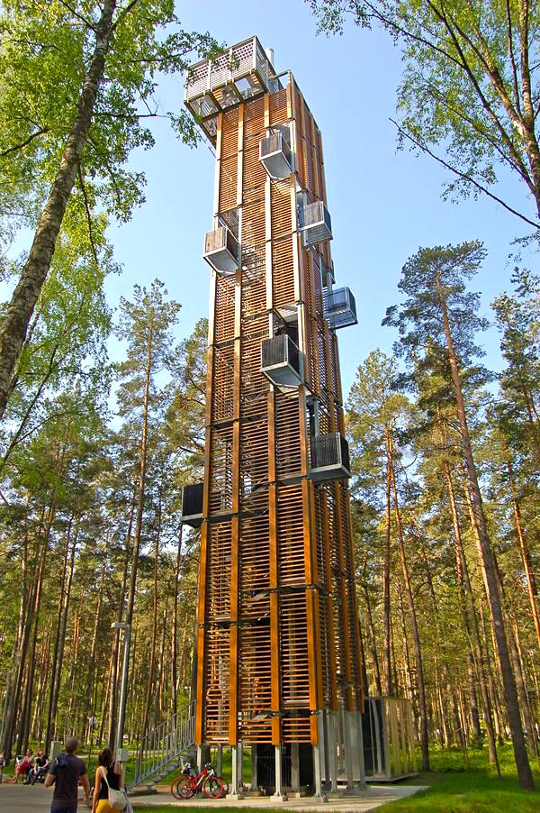 Dzintari Park Watch Tower